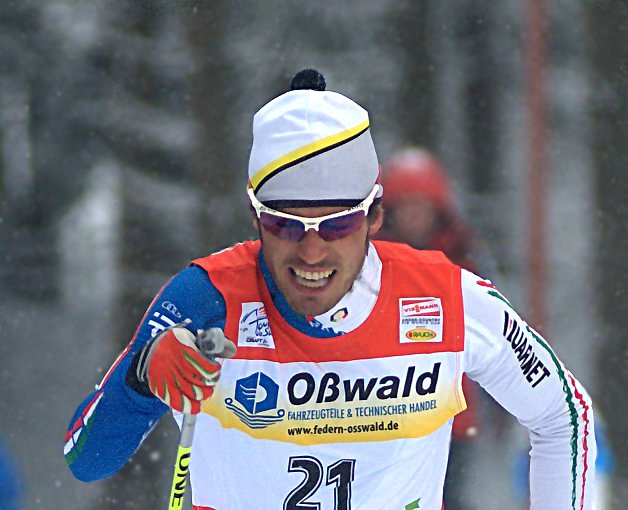 Thomas Moriggl at the Tour de Ski 2010 in Oberhof